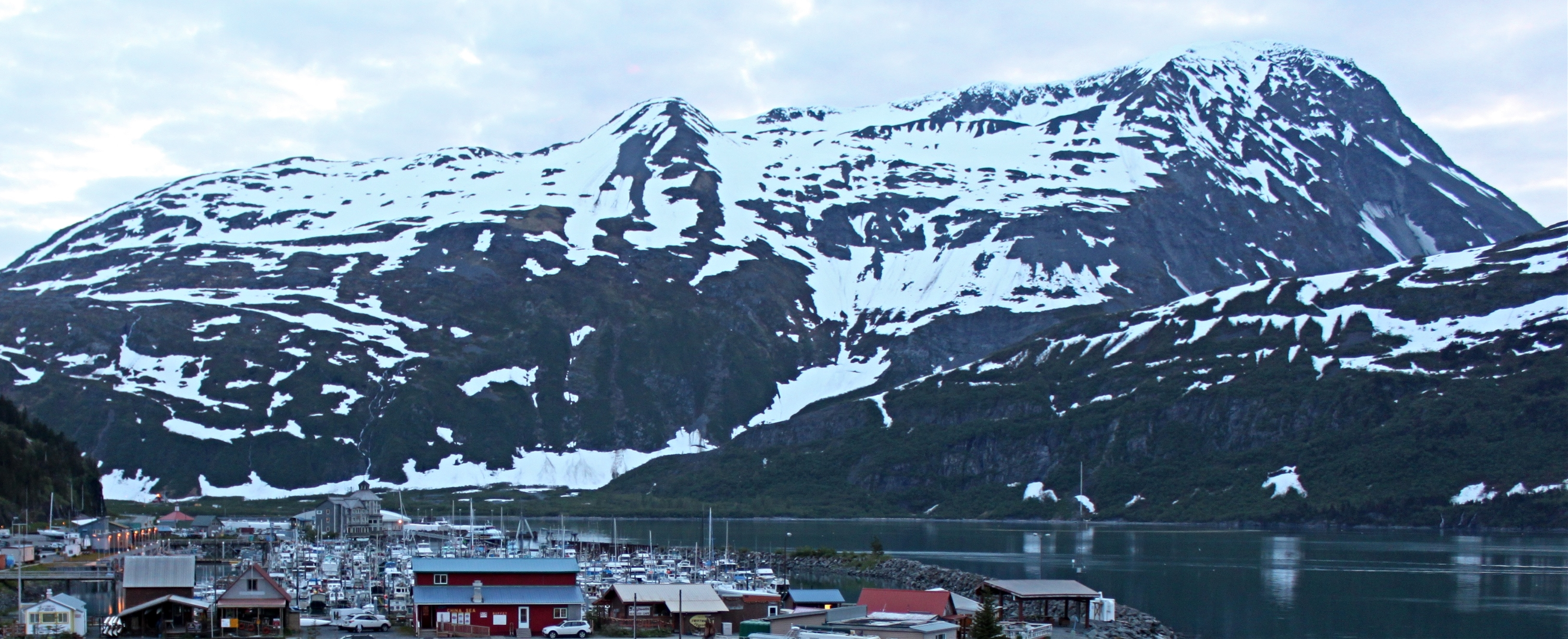 Maynard Mountain behind Whittier, Alaska